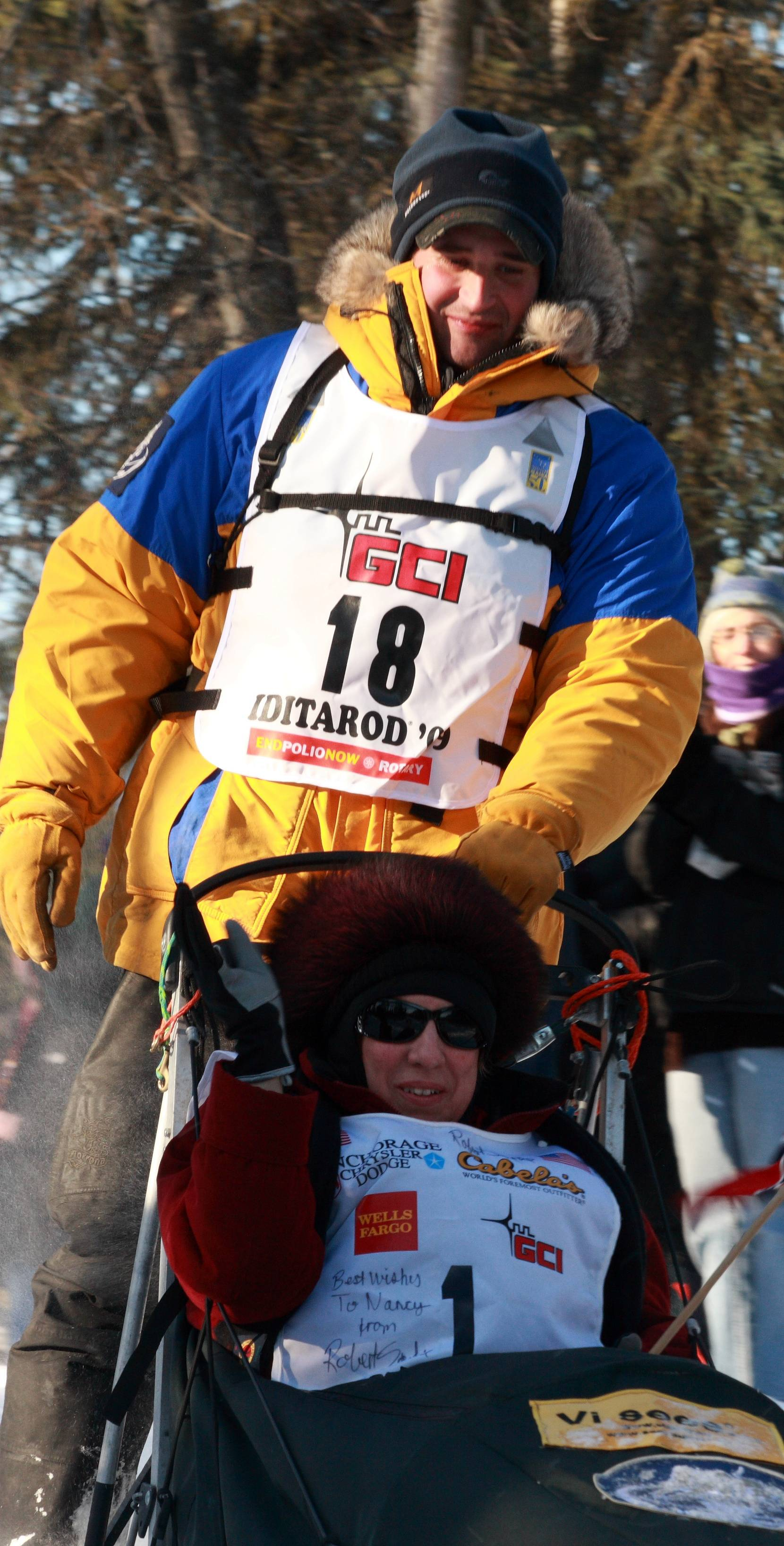 I took these photos on 8 March 2009 at the ceremonial start of the Iditarod sled dog race in Anchorage, Alaska. This was the 37th running of The Last Great Race. I get a thrill out of each race - the dogs were born to run and it is another thing that makes me proud to be an Alaskan! Note: for the ceremonial run the mushers have paying passengers - I think they are called Iditariders - these people bid on a chance to go on the ceremonial run. The actual Iditarod starts from Willow, Alaska, on the day after the ceremonial start, minus the Iditariders.